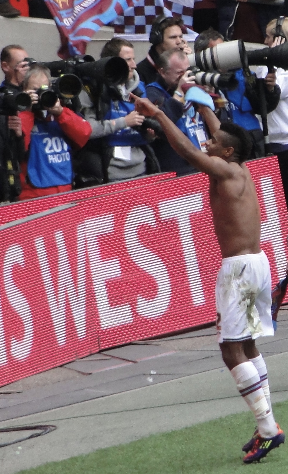 West Ham’s Vaz Tê celebrates in front of West Ham fans after winning the 2012 Championship Play-off Final at Wembley